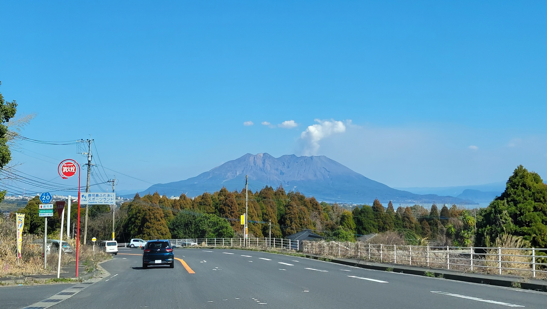 The Kagoshima Prefectural Road Route 20 in Kamifukumoto-cho, Kagoshima City